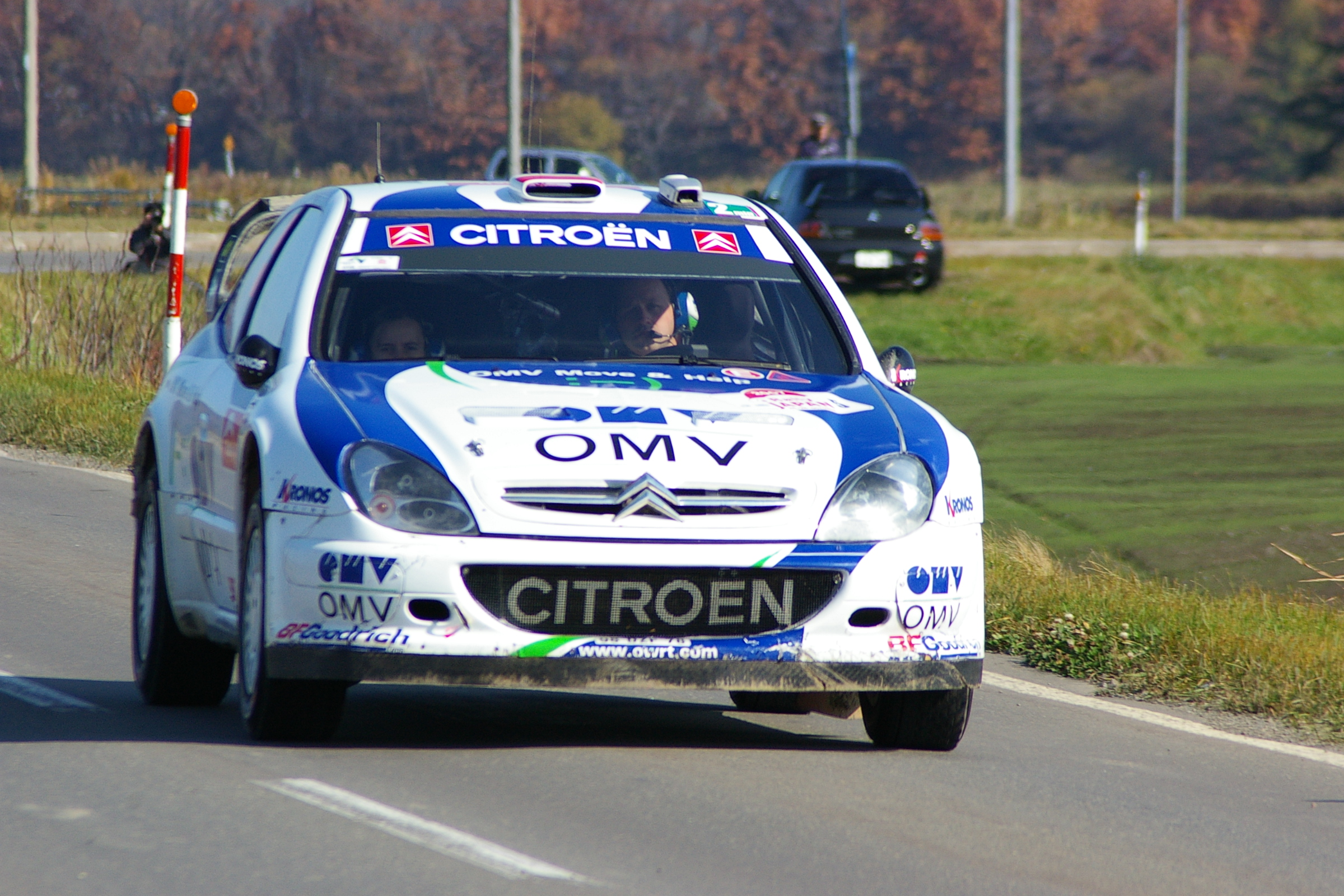 Manfred STOHL on CITROEN Xsara WRC, Rally Japan 2007.